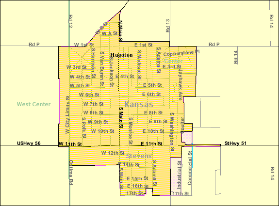 Map of Hugoton, Kansas